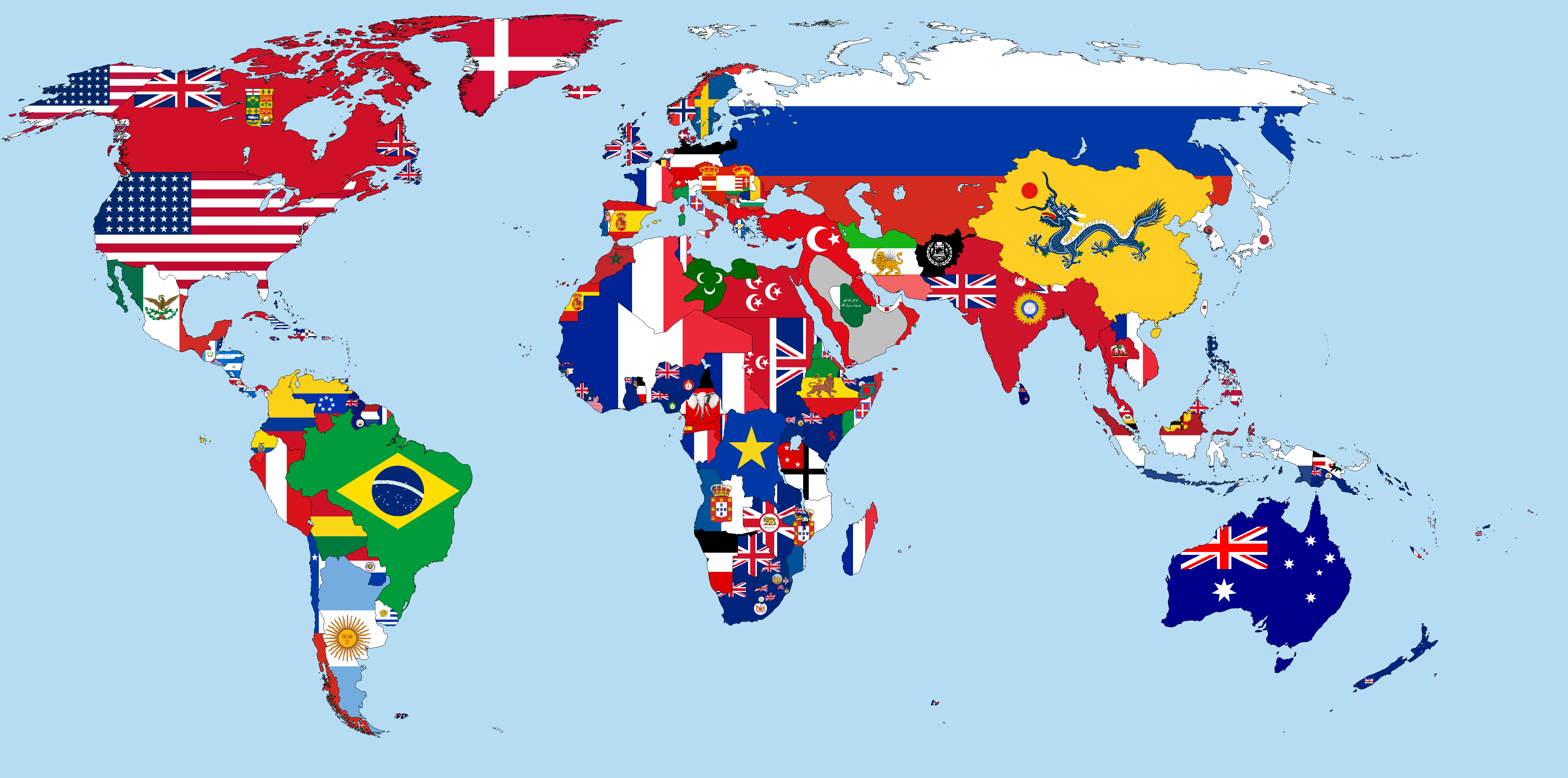 This is a world map in 1908, which shows flags of countries and colonies covering their territory. It is in Kavrayskiy VII projection. Flag maps of the world for historical use 1789 · 1900 · 1908 · 1914 · 1930 · 1935 · 1938 · 1942 · 1965 · 1970 · 1972 · 1974 · 1989 · 1990 · 1991 · 1992 · 1993 · 2010 · 2012 · 2013 · 2015 · 2016 · 2017 · 2018 (this template: • view • discuss )